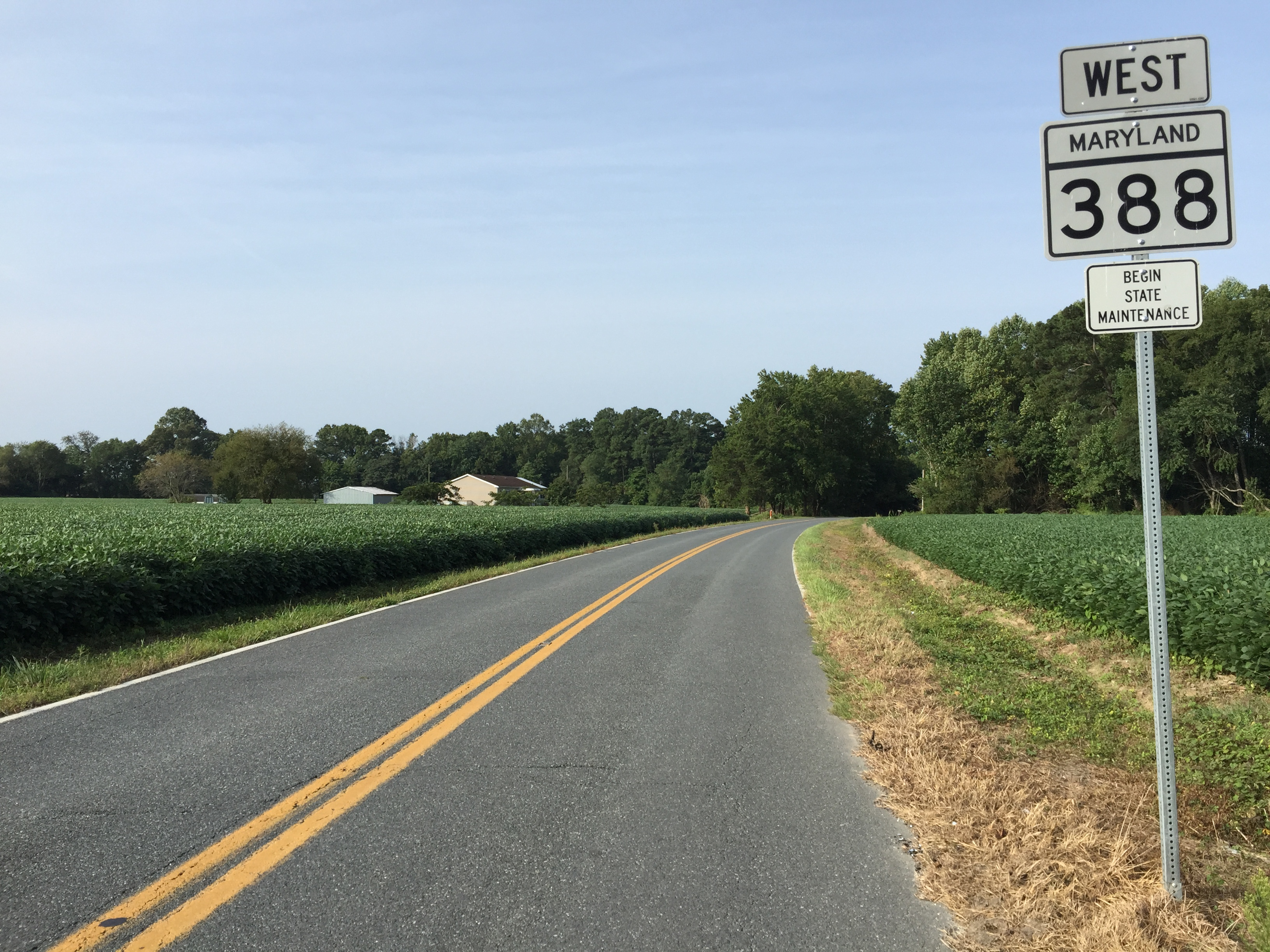 View west along Maryland State Route 388 (Post Office Road) between Palmetto Church Road and Perryhawkin Road in Palmetto, Somerset County, Maryland